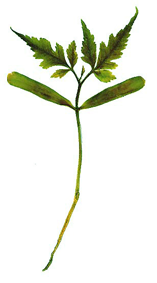 Koelreuteria paniculata seedling